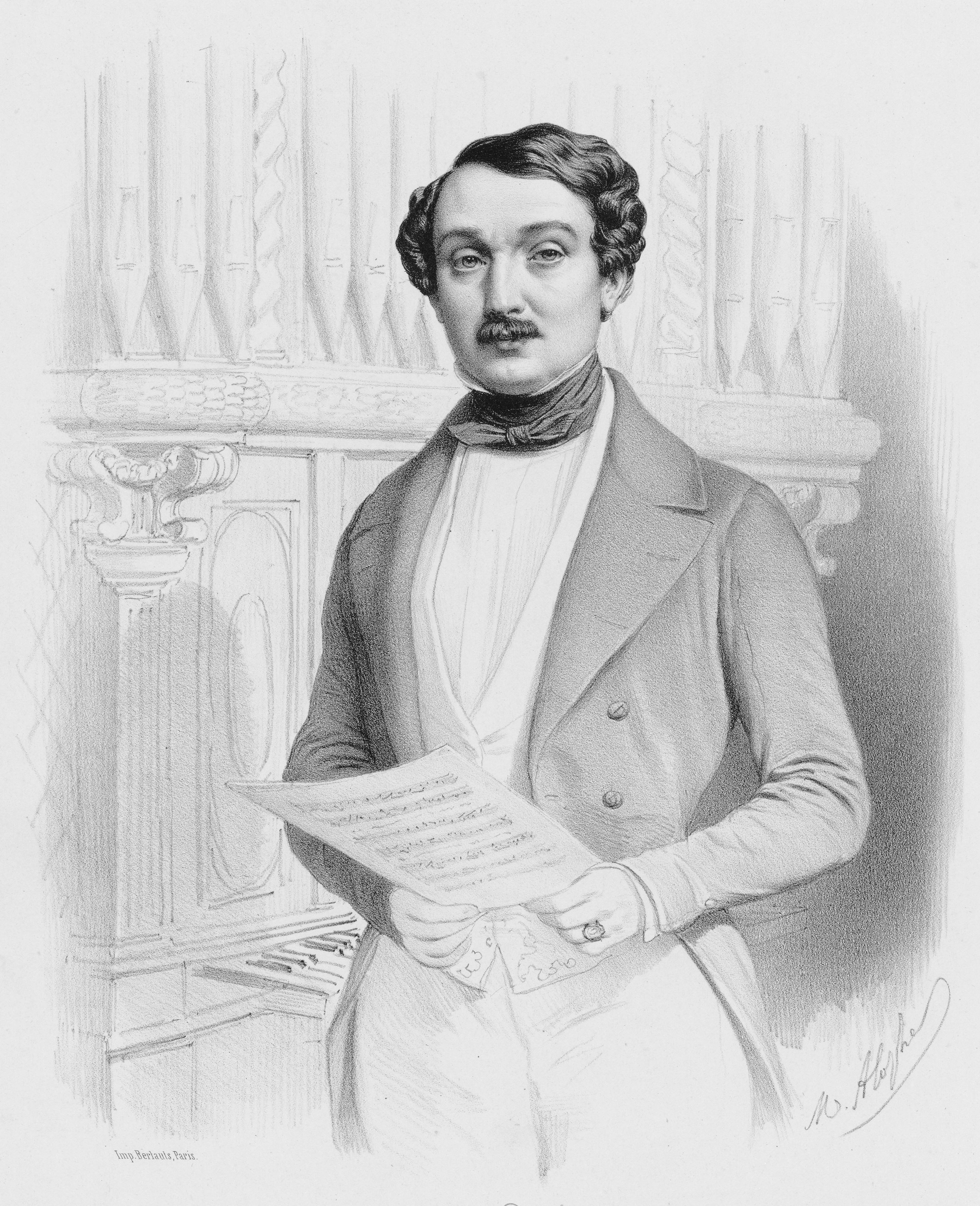 Alexis Dupont (1876–1874), French operatic tenor